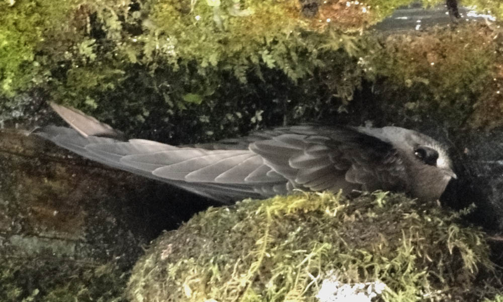 Photo taken July 24, 2011 by Terry Gray; Black Swift (Cypseloides niger), adult; Fern Falls, Yellowdog Creek, Idaho.